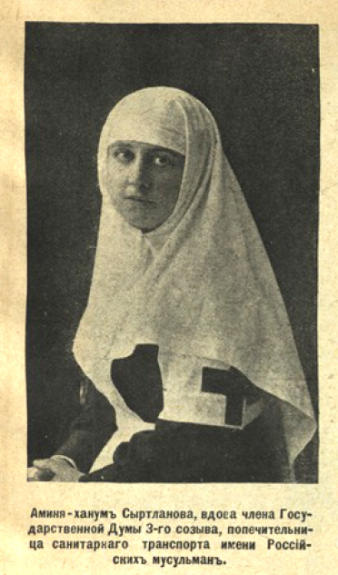 Amina Hanum Syrtlanoff in 1916